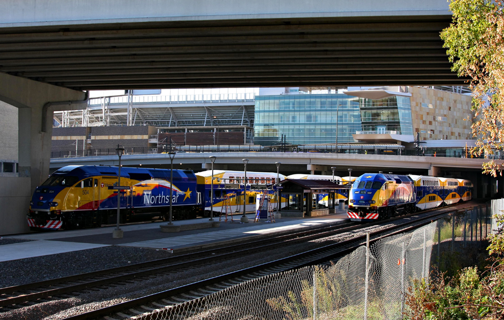 Northstar trains are running on their regular schedule now, though you'll need to wait until 11-16 to ride one. I could only see these two trains, but my guess is the other three had to be behind them for the return trips.